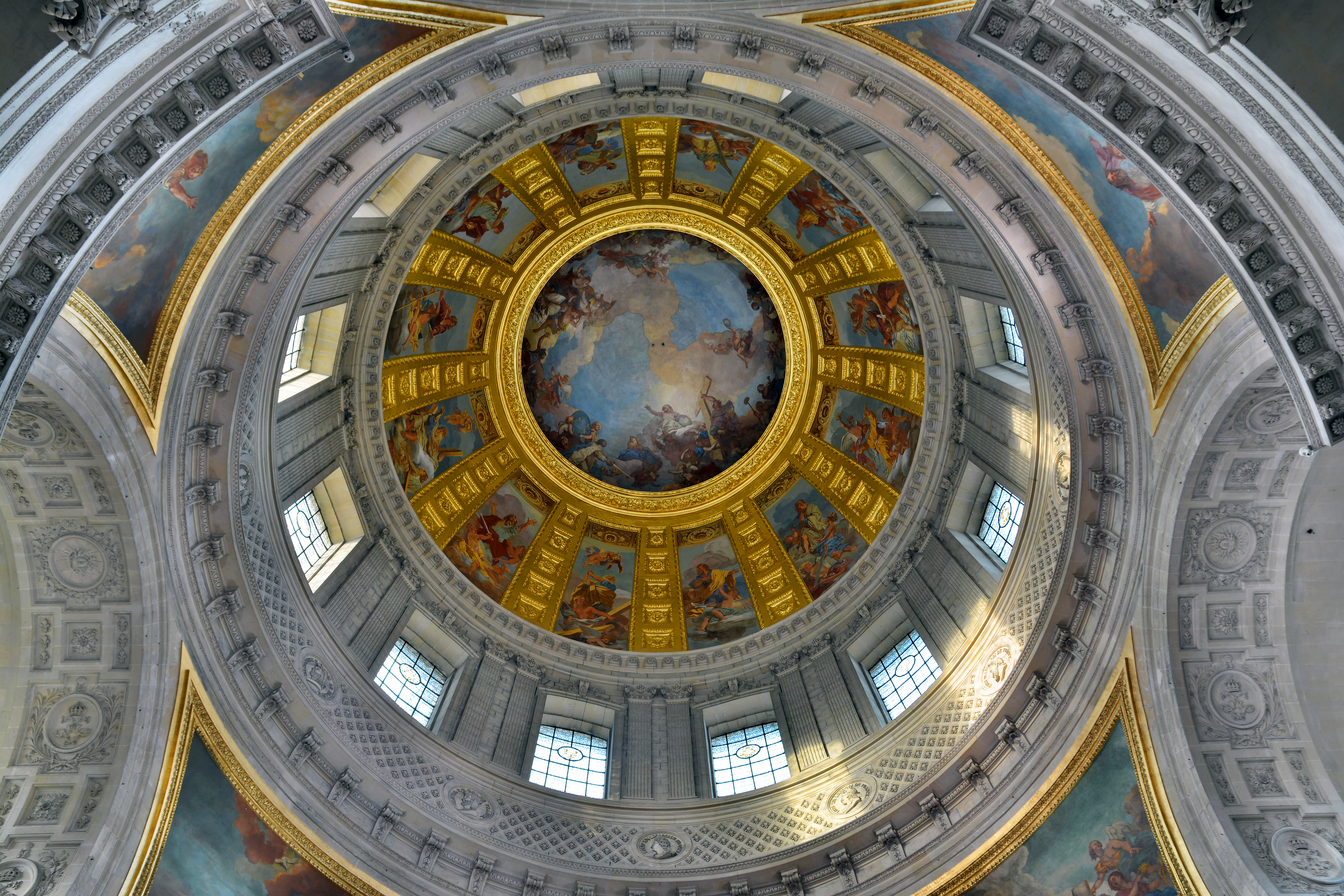 De La Fosse's allegories on the dome over the Napoleone's tomb